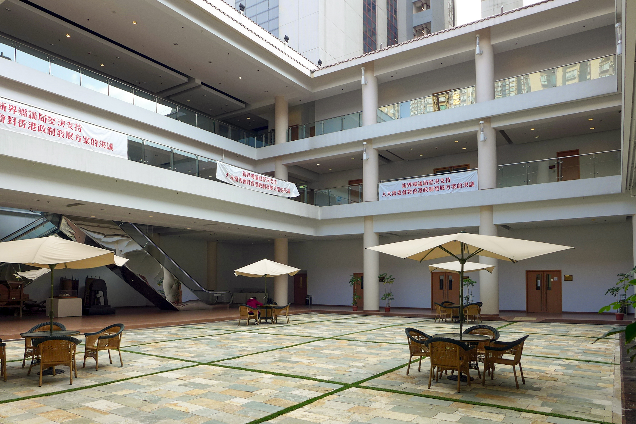 Heung Yee Kuk New Territories Building Courtyard_2014